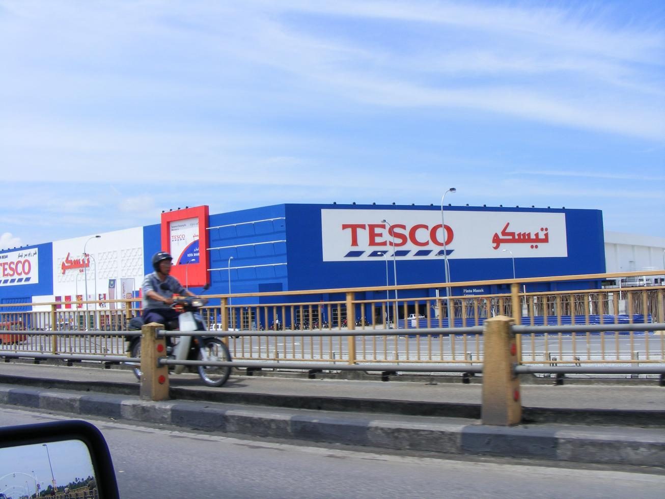 Tesco outlet in Kota Bharu, Kelantan, Malaysia